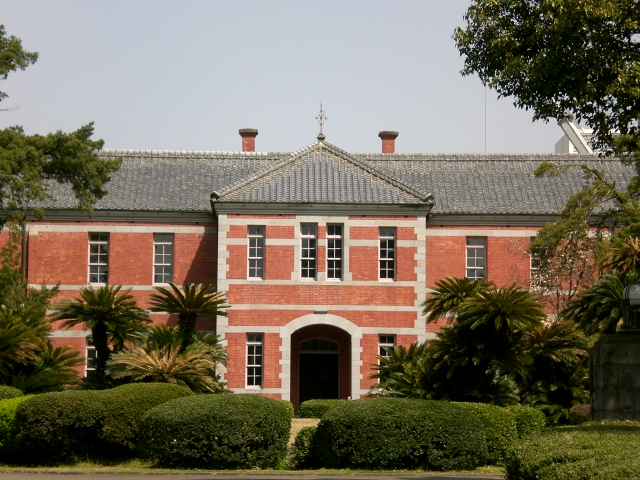 The Memorial Hall of the old Fifth Higher School, Kumamoto University.Photograph taken by 910MoLT himself on March 17, 2009.